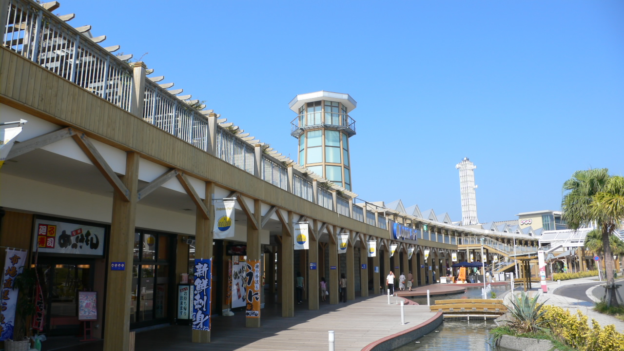 Dolphin Port in Kagoshima-shi, Kagoshima Pref., Japan.